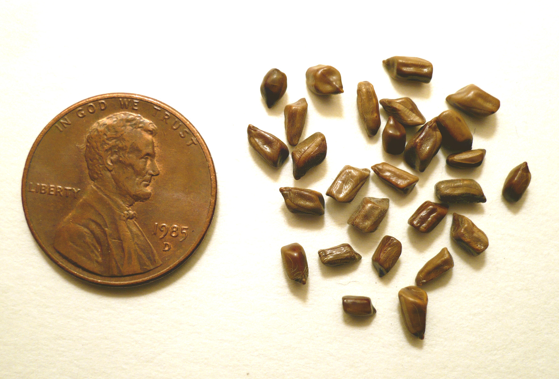 Dried seeds of Senna obtusifolia, with a United States penny at left for comparison. Photo taken in Kent, Ohio with a Panasonic Lumix digital camera (model DMC-LS75).